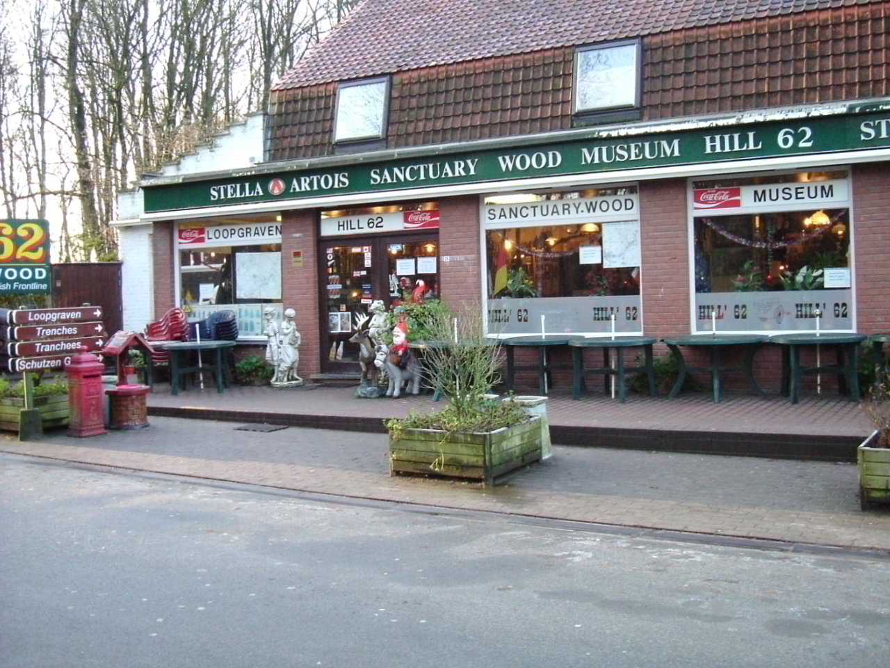 Hill 62 Museum Yper Belgium